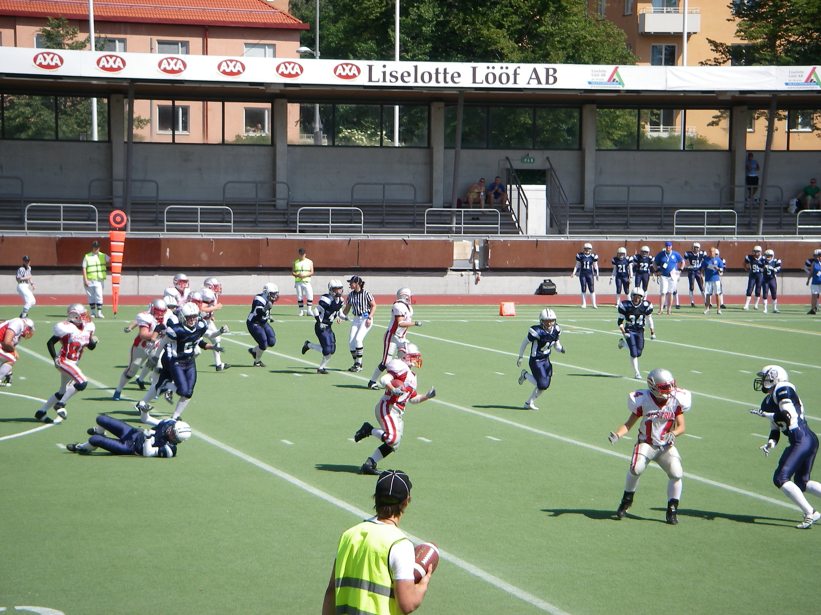 Game between Finland and Austria in the 2010 IFAF Women's World Championship. The game was played at Zinkensdamm in Stockholm, Sweden and ended with a 50-16 victory for the Finnish team.